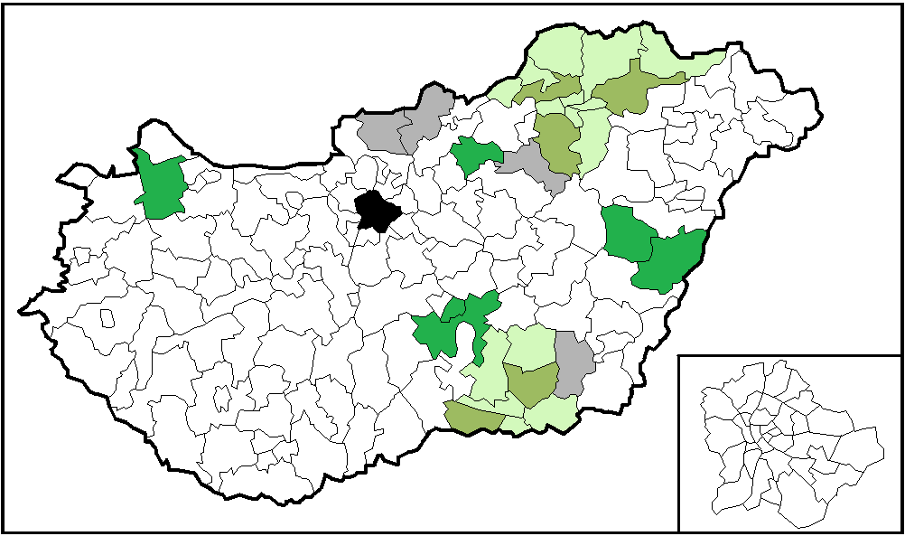 Candidates by minor parties on the 2010 Hungarian parliamentary election: The Justice and Life Party ██ = Candidate accepted by the Local Elections Comitee, territorial list accepted by the Local Elections Comitee ██ = Candidate accepted by the Local Elections Comitee, No territorial list ██ = No single-seat candidate, territorial list accepted by the Local Elections Comitee ██ = Single-seat candidate rejected by the Local Elections Comitee